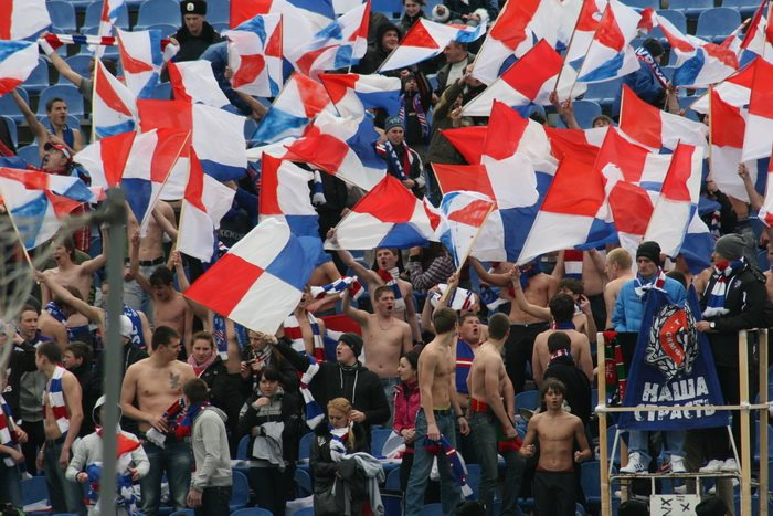 SC Tavriya supporters